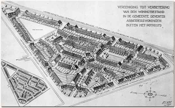 Knutteldorp, Deventer